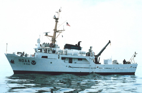 The National Oceanic and Atmospheric Administration (NOAA) hydrographic survey ship NOAAS Rude (S 590)